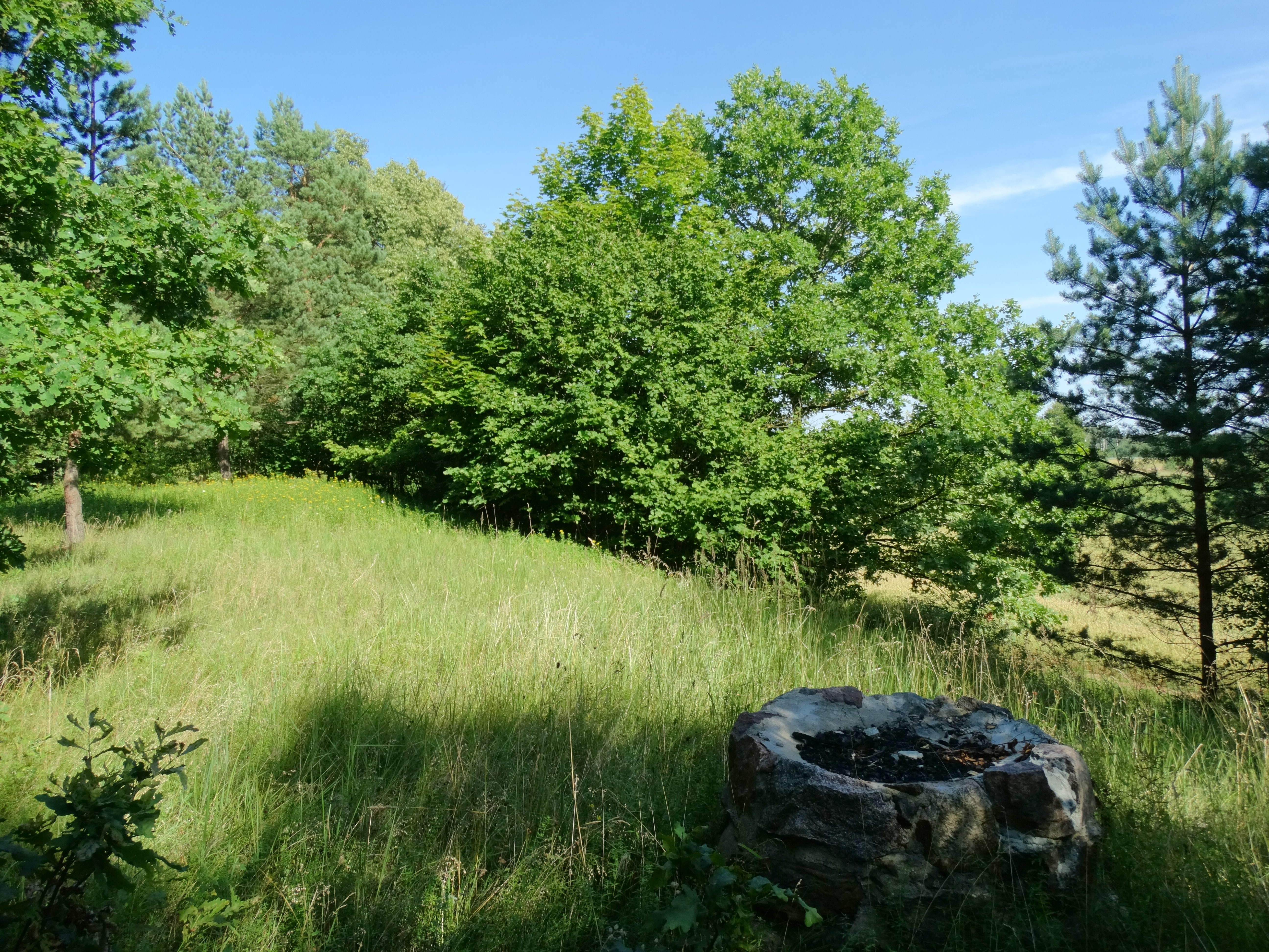 Esker, Lapgirys, Pakruojis district, Lithuania